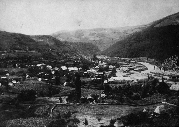 Offenbánya / Ofenbaia (now Baia de Arieș /Aranyosbánya) in the Apuseni Mountains